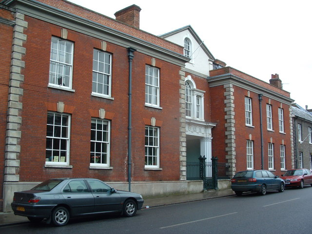 Northgate House, No 8 in Northgate Street in Bury St Edmunds, Suffolk, England. A Grade I listed house.